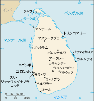 Map of Sri Lanka in Japanese, based upon CIA World Factbook